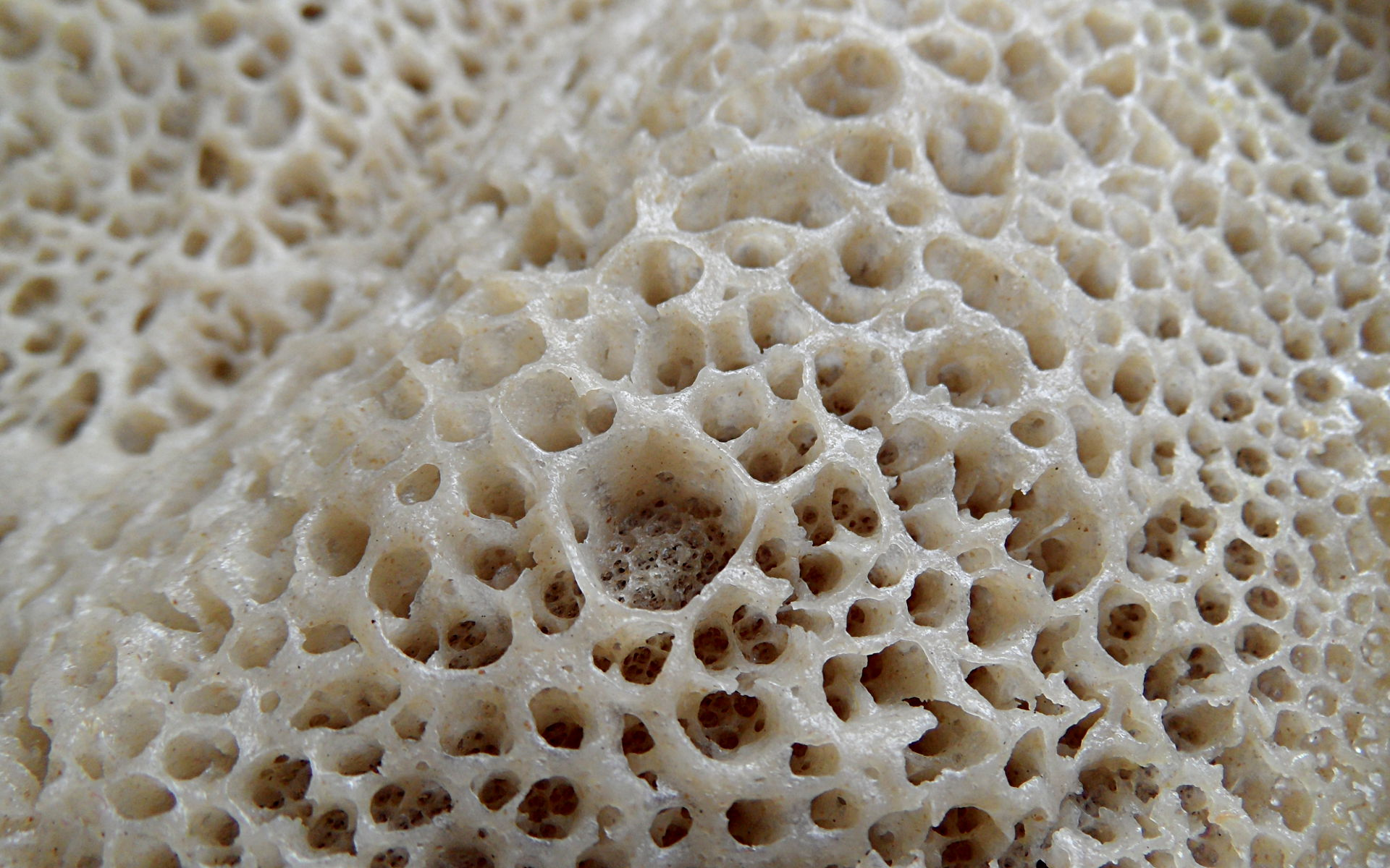 Spongy texture of Somali Canjeelo